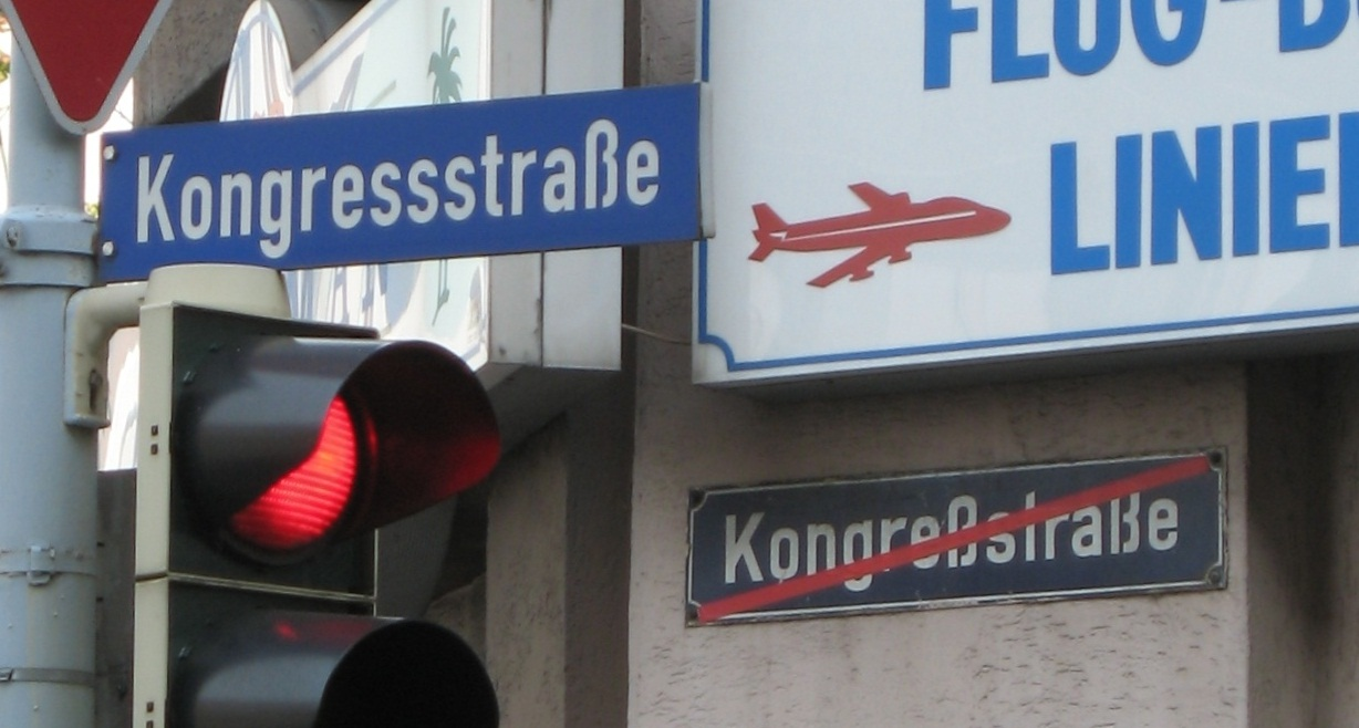 Street name sign (translated in English as: Congress Street) in Aachen adapted to the 1996 German spelling reform.